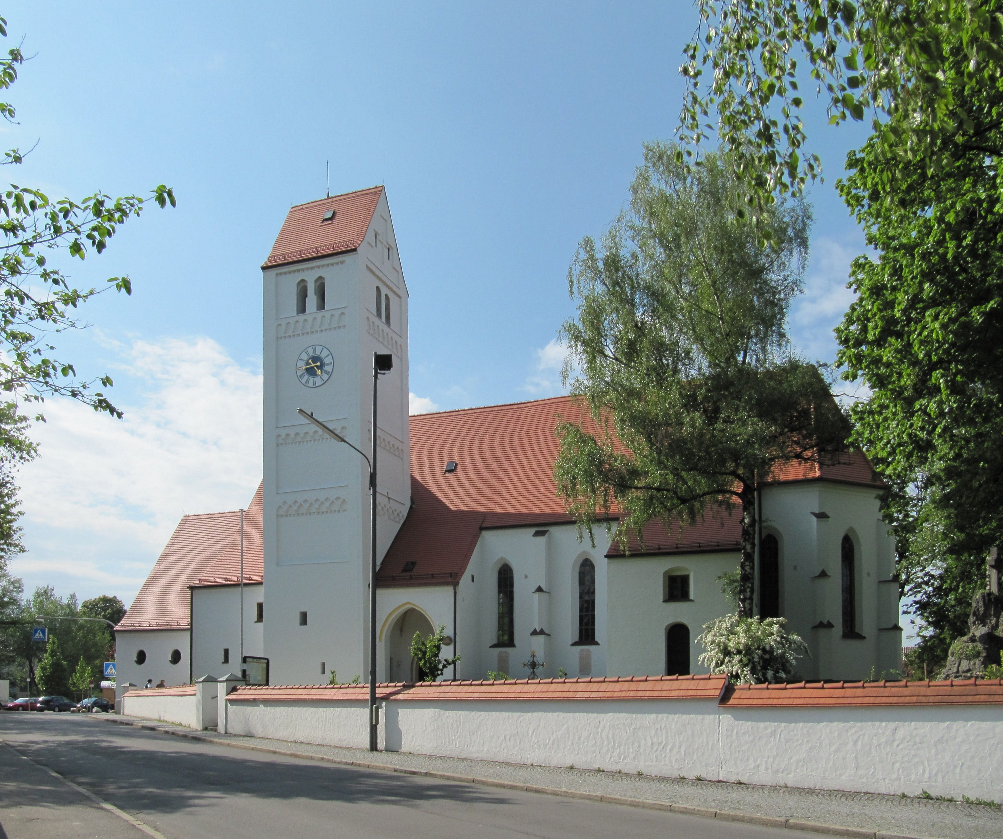 Munich-Aubing: The old village church St. Quirin at the Ubostraße.